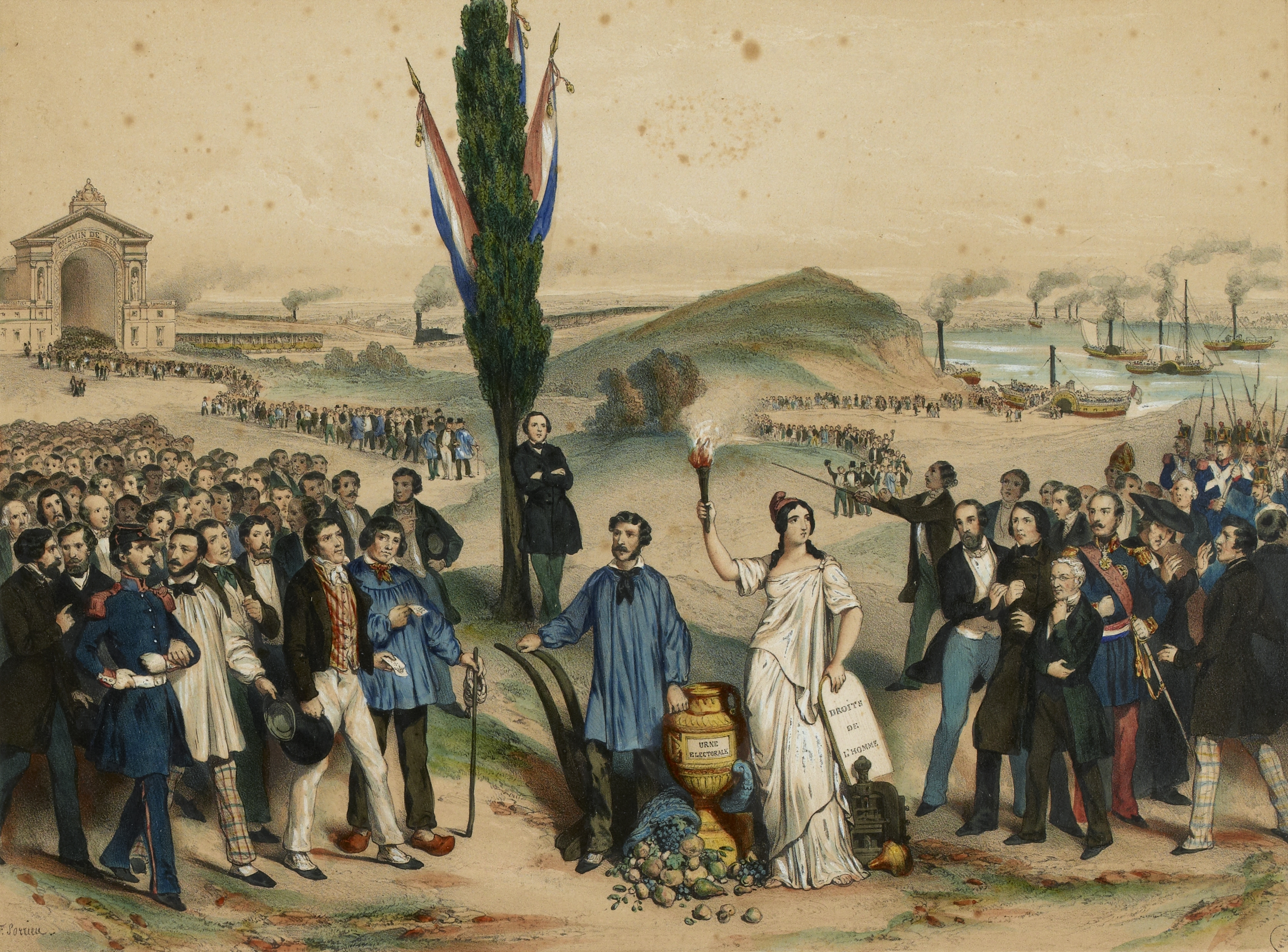 Suffrage universel dédié à Ledru-Rollin. This lithography pays tribute to French statesman Alexandre Auguste Ledru-Rollin for establishing universal male suffrage in France in 1848, following the French Revolution of 1848.